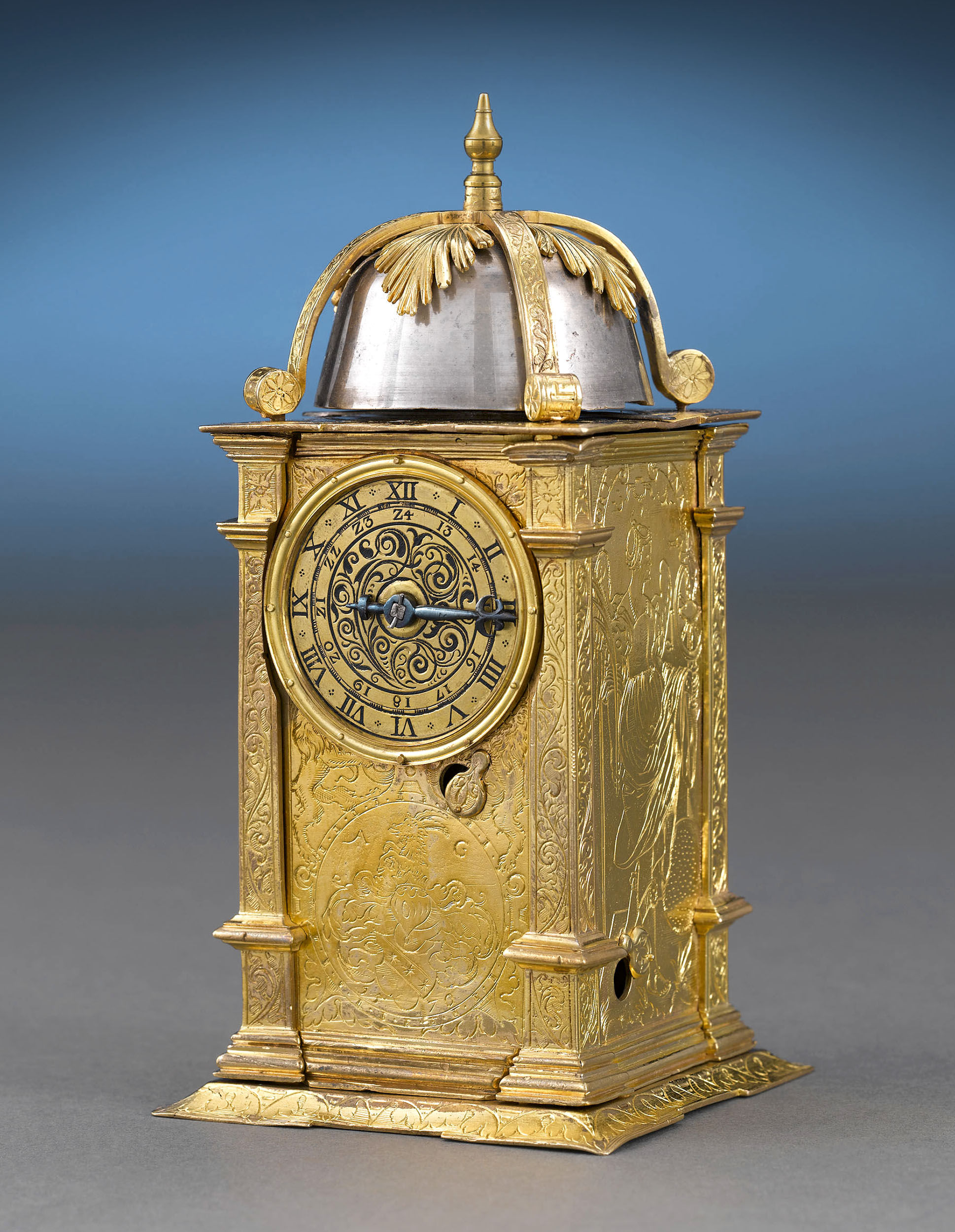 Renaissance Turret Clock, German, circa 1570